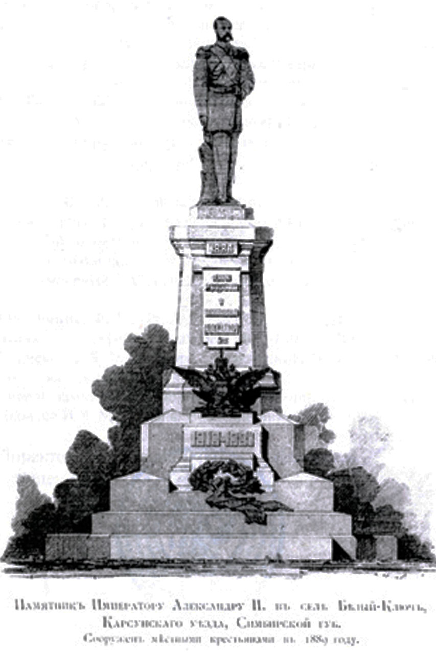 The postcard of the monument to Russian emperor Alexandr II erected in 1898 in Bely Kliuch, now Ulianovsk Oblast' of Russia